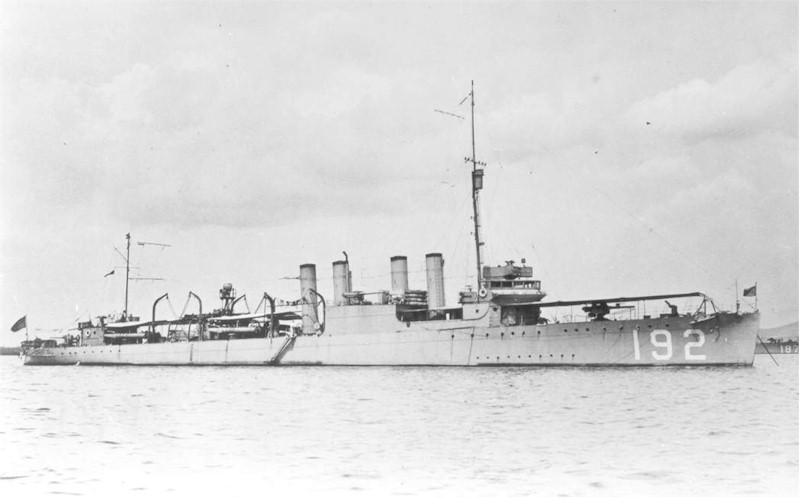 The U.S. Navy destroyer USS Graham (DD-192) at anchor in Guantanamo Bay, Cuba, circa 1920. USS Dahlgren (DD-187) is partially visible in the right background.